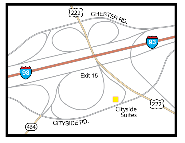 A generic locator map showing a fictitious highway interchange and hotel location (in the style of a US map).